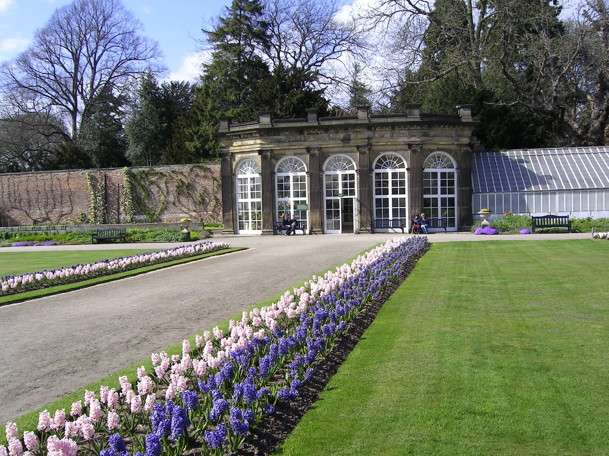 Gardens at Ripley castle